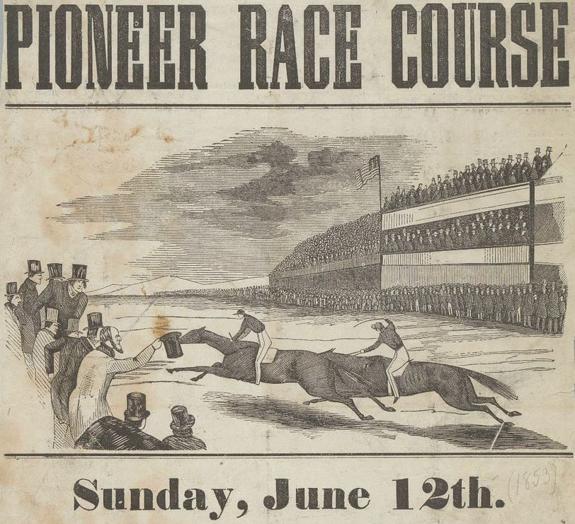 June 1853 advertisement of horse race at the Pioneer Race Course, Mission District San Francisco California